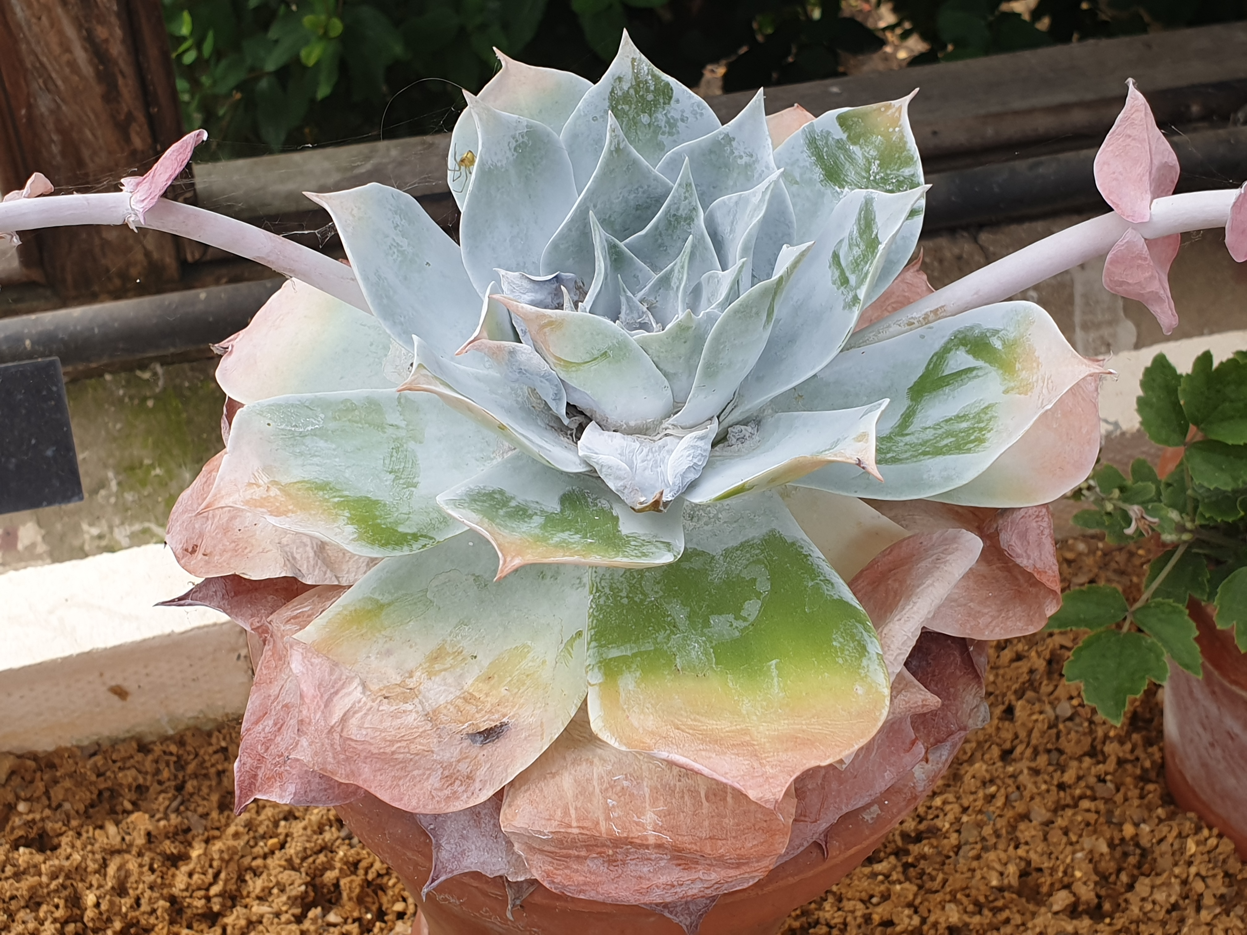 Chalk lettuce (Dudleya pulverulenta) at the Cambridge University Botanic Garden, England.